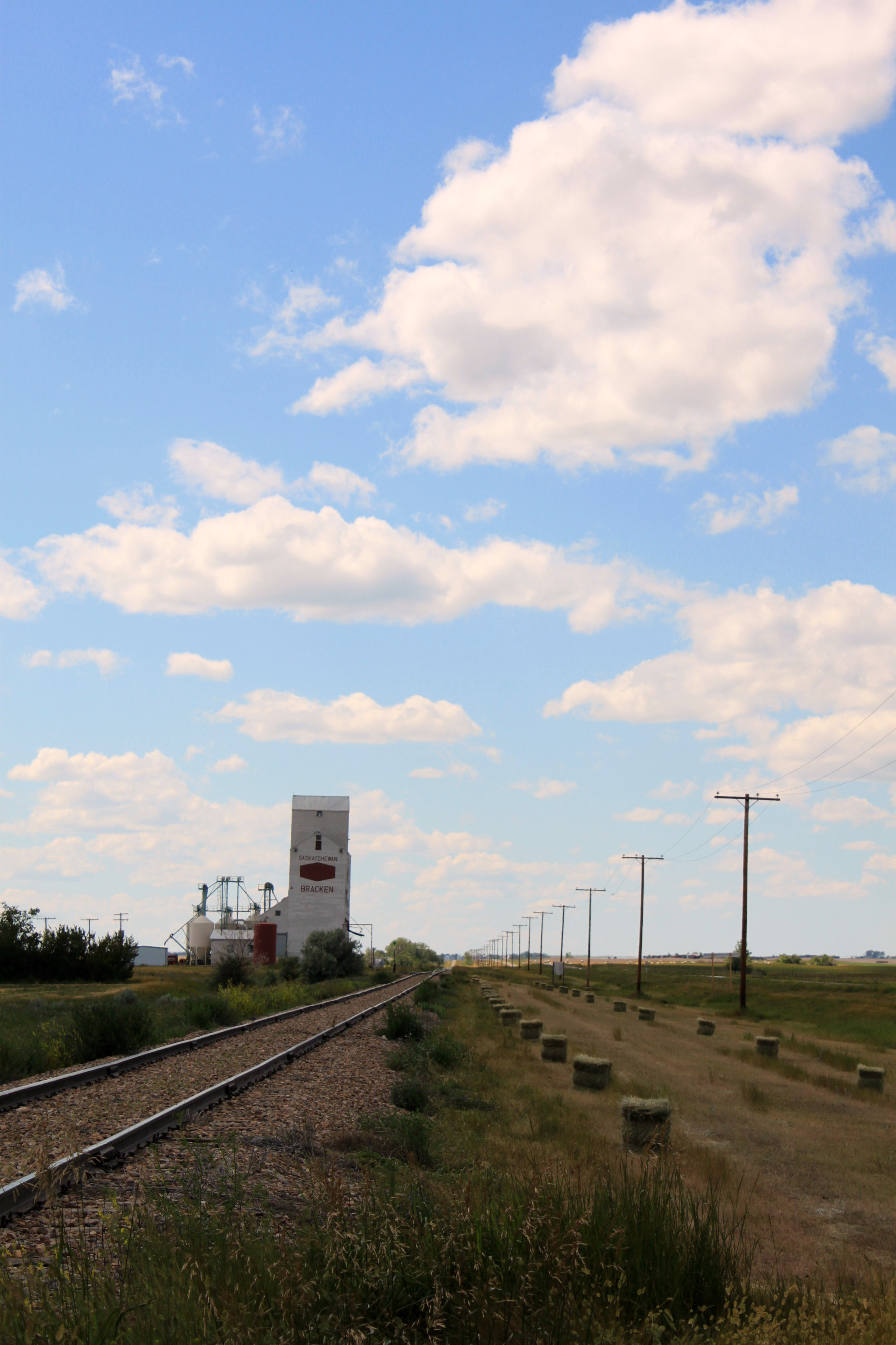 Bracken